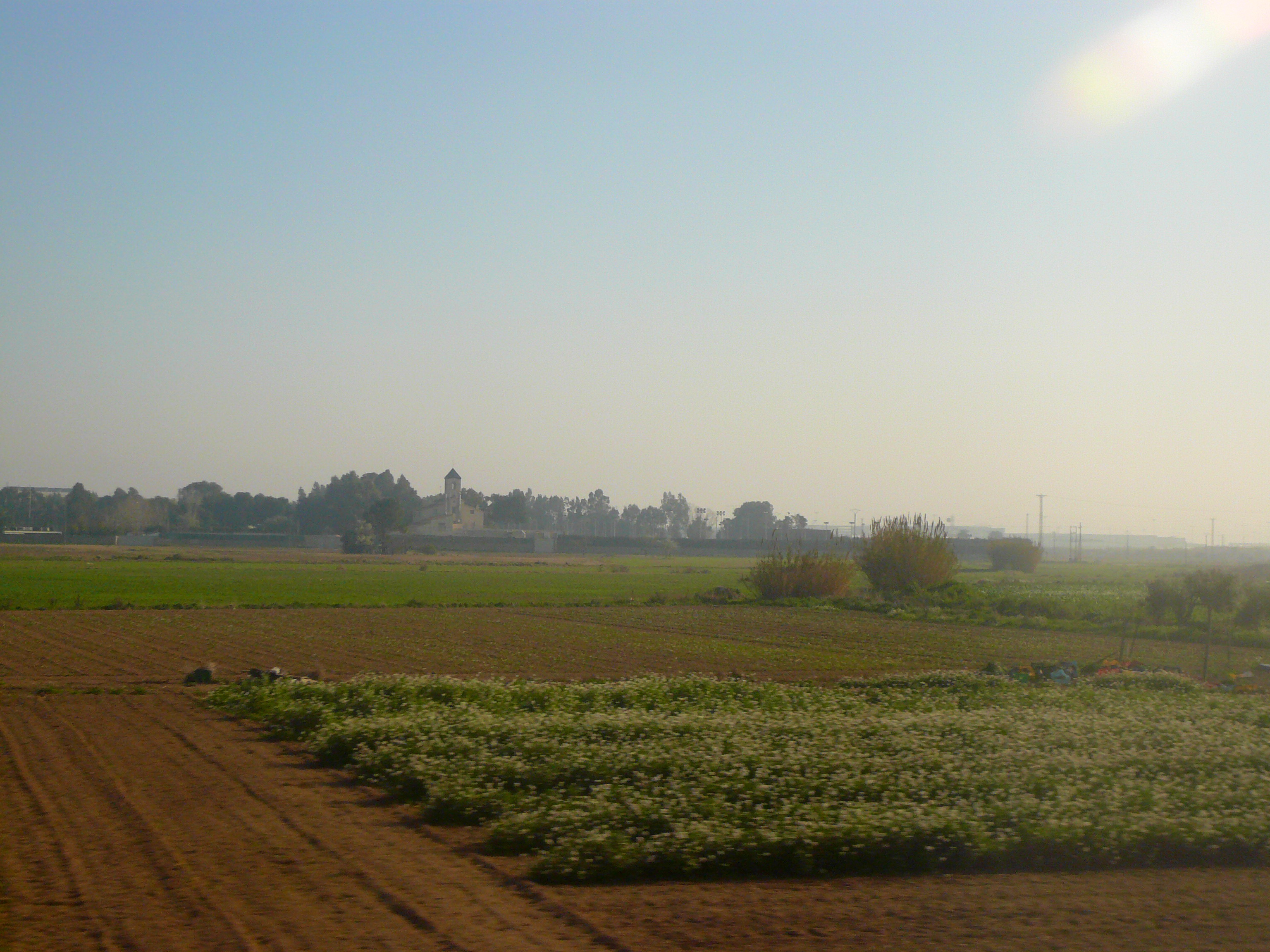 Cal Felip and delta of Llobregat river, el Prat de Llobregat, Catalonia.